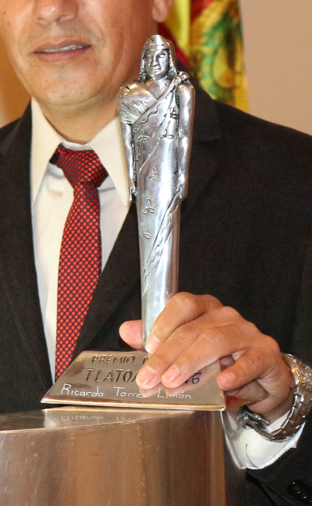 Tlatoani National Award Statuette